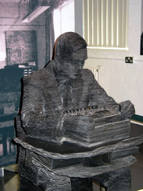 Alan Turing Statue at Bletchley Park. The statue, commissioned from Stephen Kettle by the late Sidney E Frank, depicts Alan Turing seated in front of an ENIGMA ciphering machine. Turing was the inspirational mathematician at the heart of Bletchley Park's success in breaking into Enigma-enciphered wireless traffic during World War Two. The one and a half ton, life-size statue was created from approximately half a million individual pieces of Welsh slate.